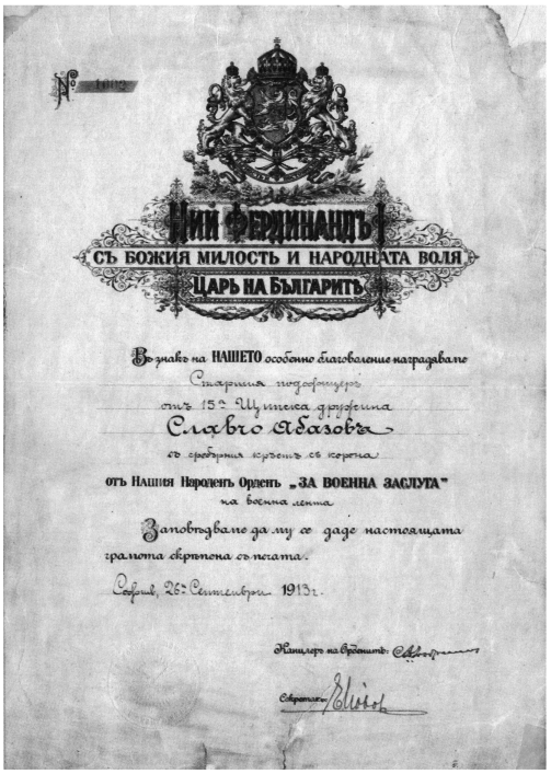 Order of Military Merit of Slavcho Abazov 26 September 1913